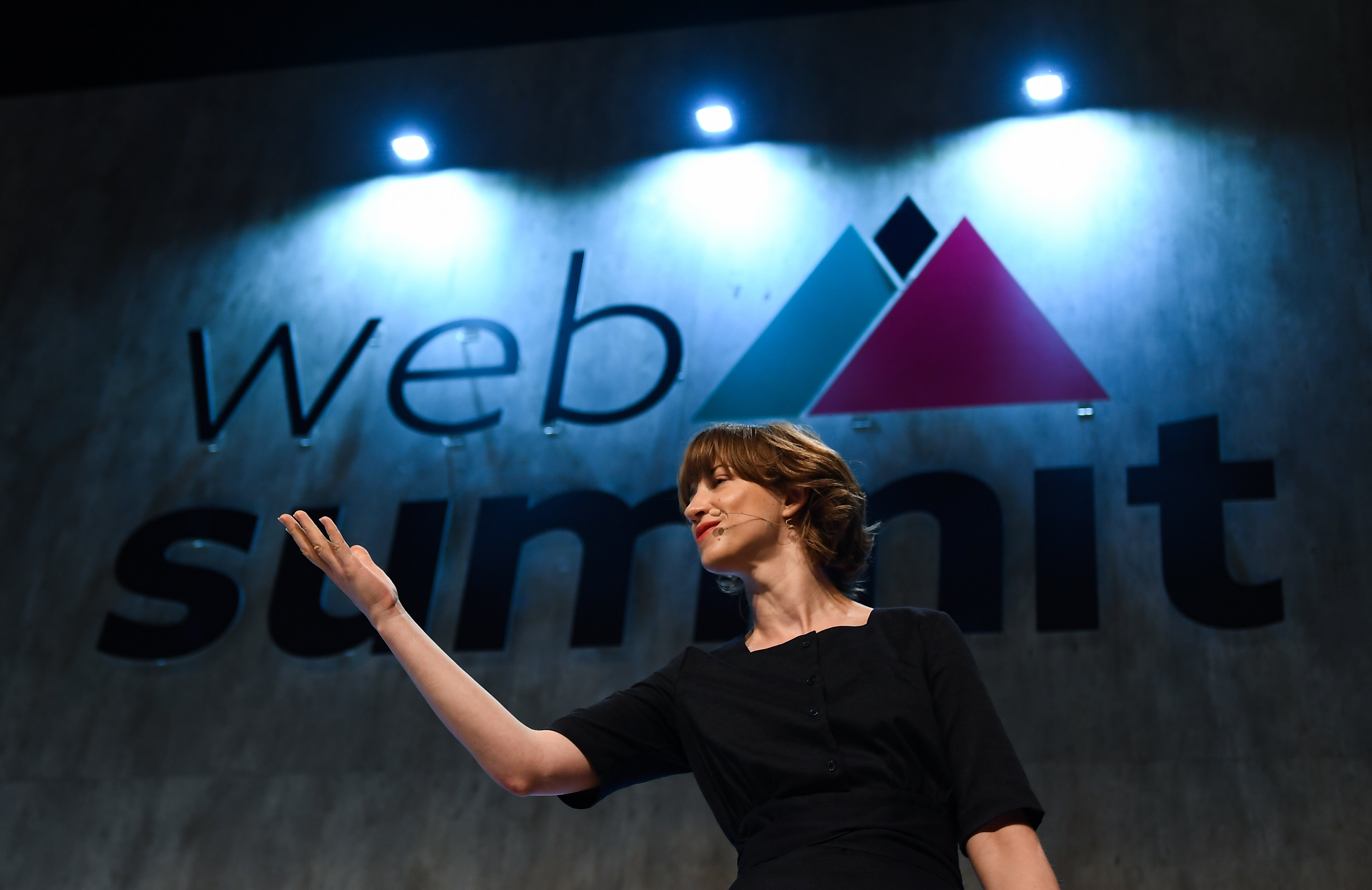 5 November 2019; Cassie Kozyrkov, Chief Decision Scientist, Google, on Auto/Tech & TalkRobot Stage during the opening day of Web Summit 2019 at the Altice Arena in Lisbon, Portugal. Photo by Harry Murphy/Web Summit via Sportsfile